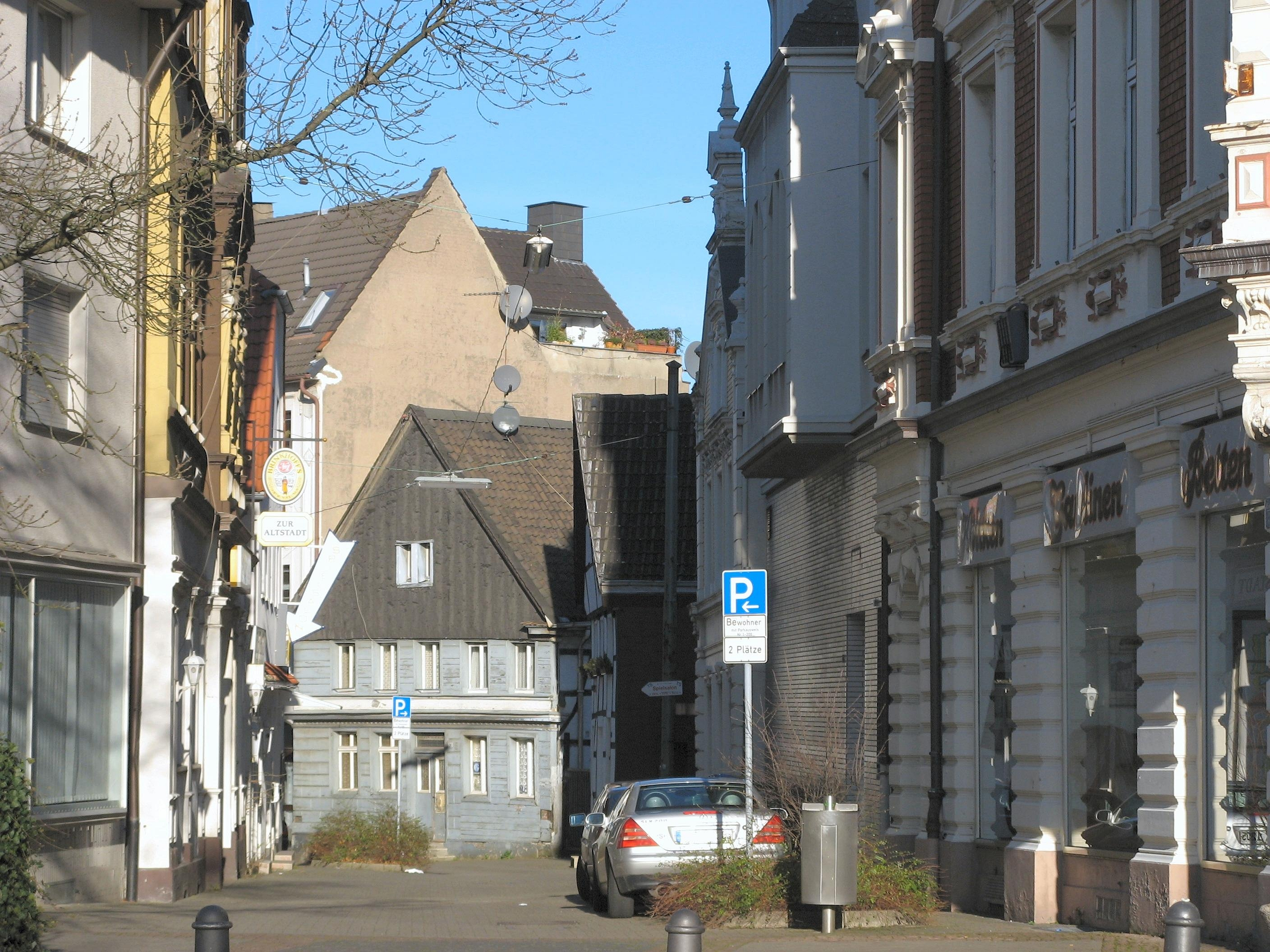 Wattenscheid, Some side streets still breathe the charm of the foundation period, Charme der Gründerjahre